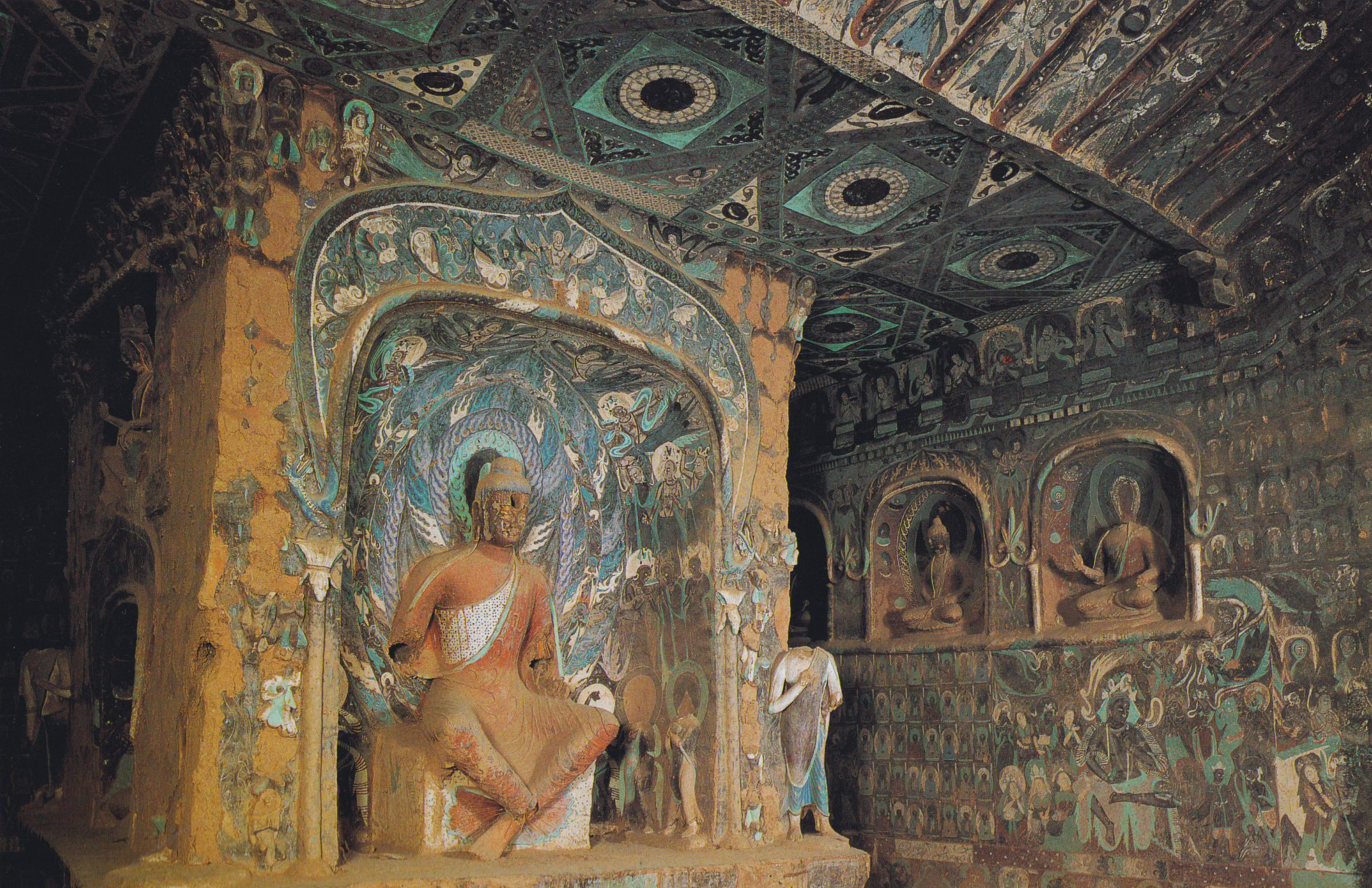 Tathāgata Buddha: painted sculpture and murals. Cave n ° 254, central pillar and North wall. Northern Wei dynasty (386-534). Mogao caves.